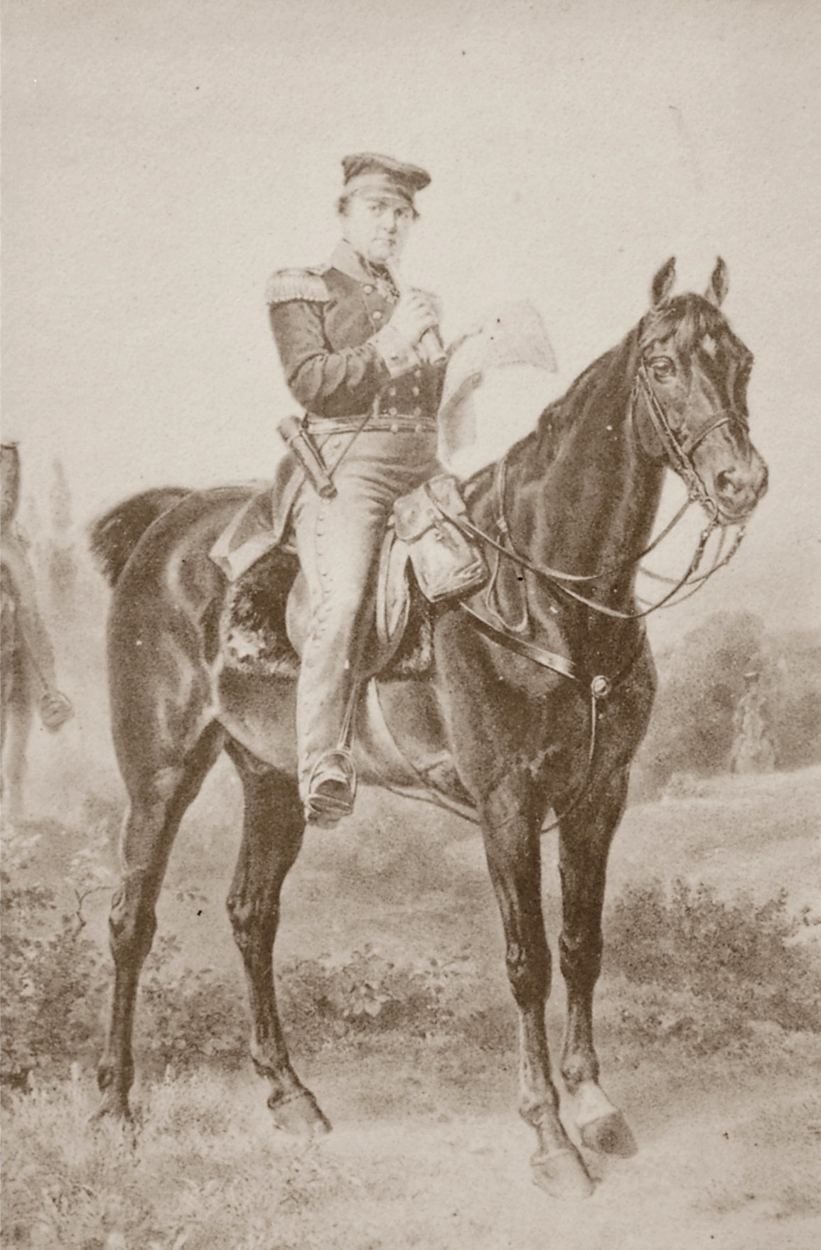 August Neidhardt von Gneisenau, General of Prussia.